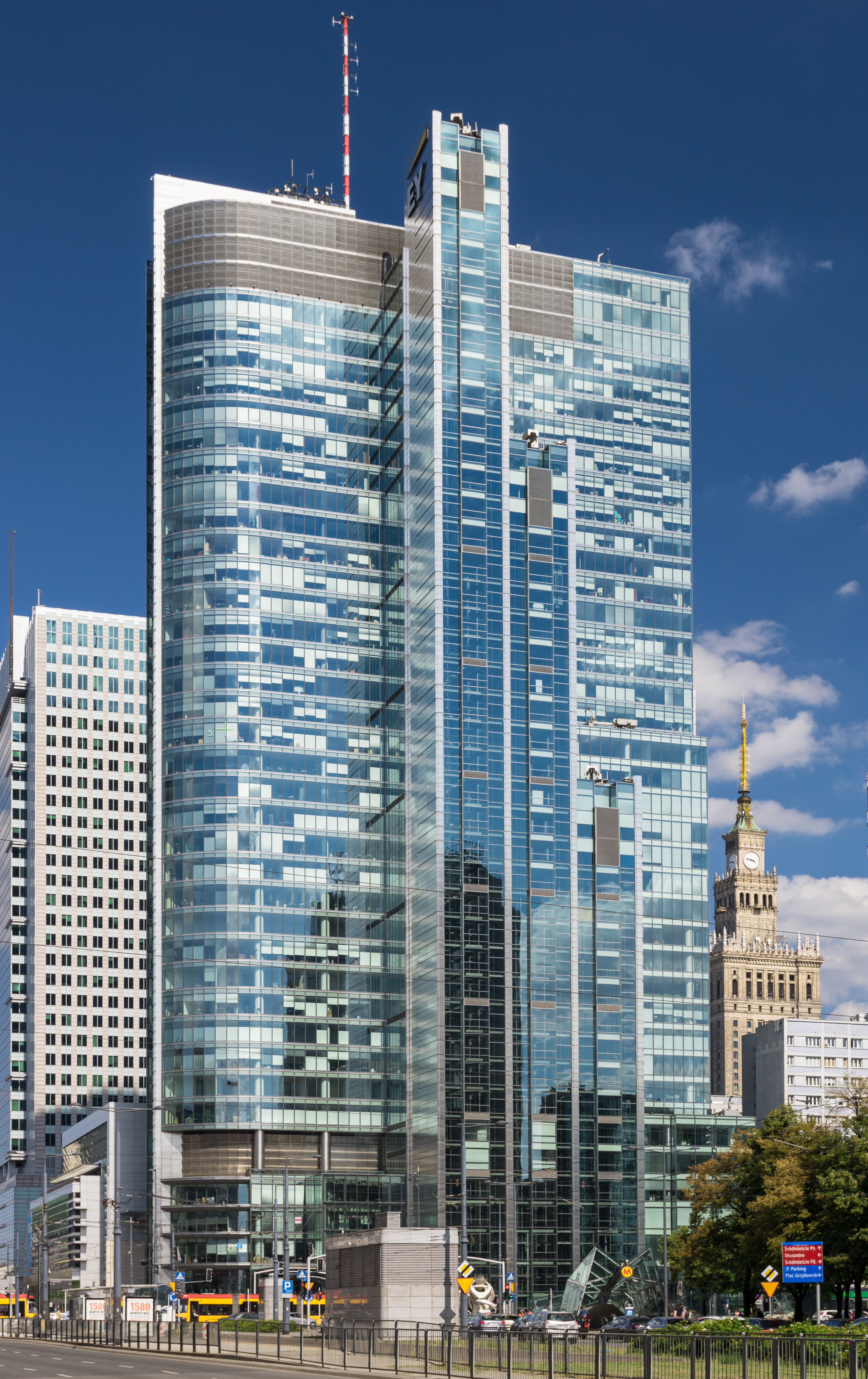 'Rondo 1' skyscraper in Warsaw - view from the Prosta street